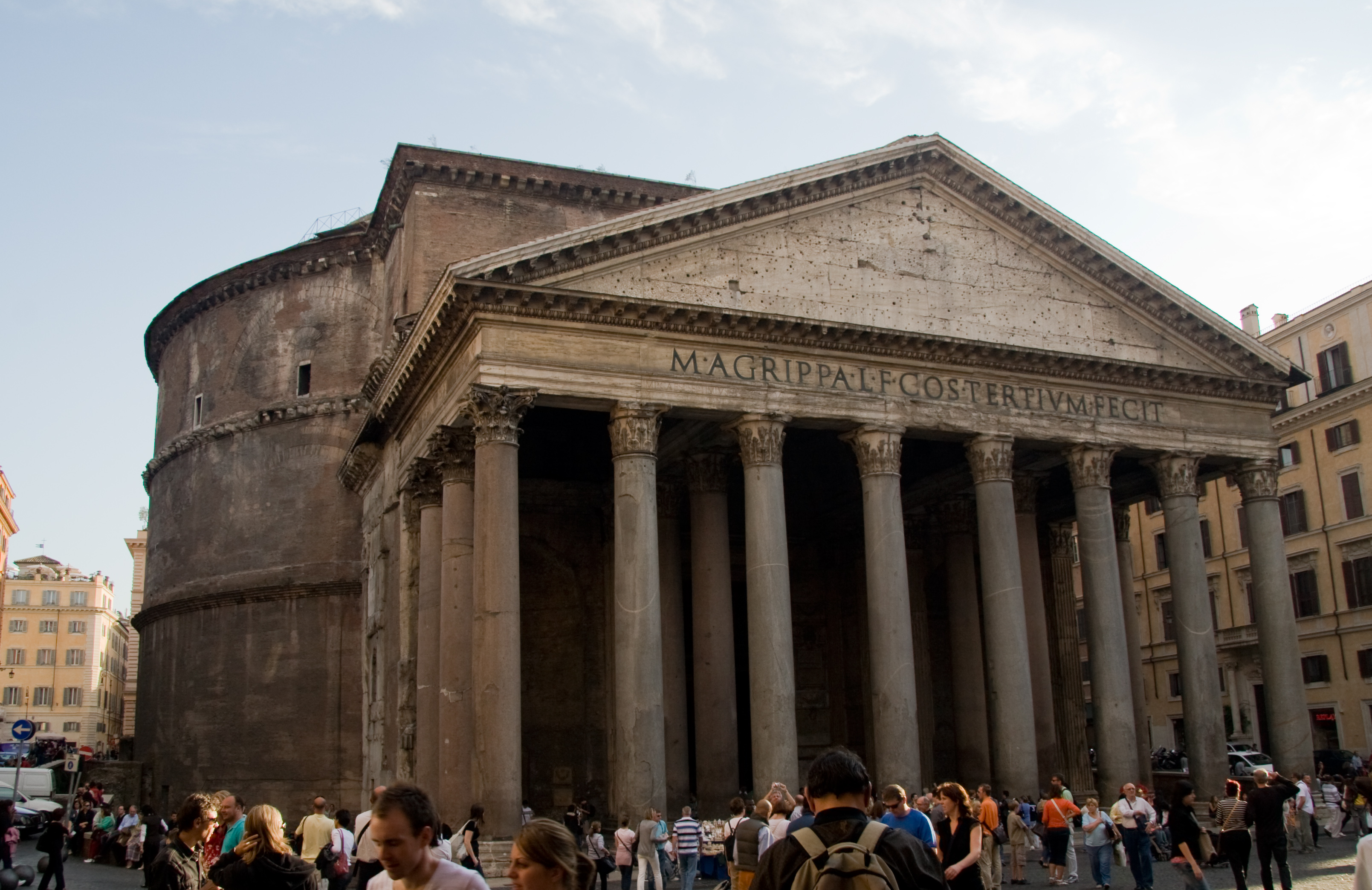 The Pantheon in Roma. - OpenStreetMap (Info) Outside